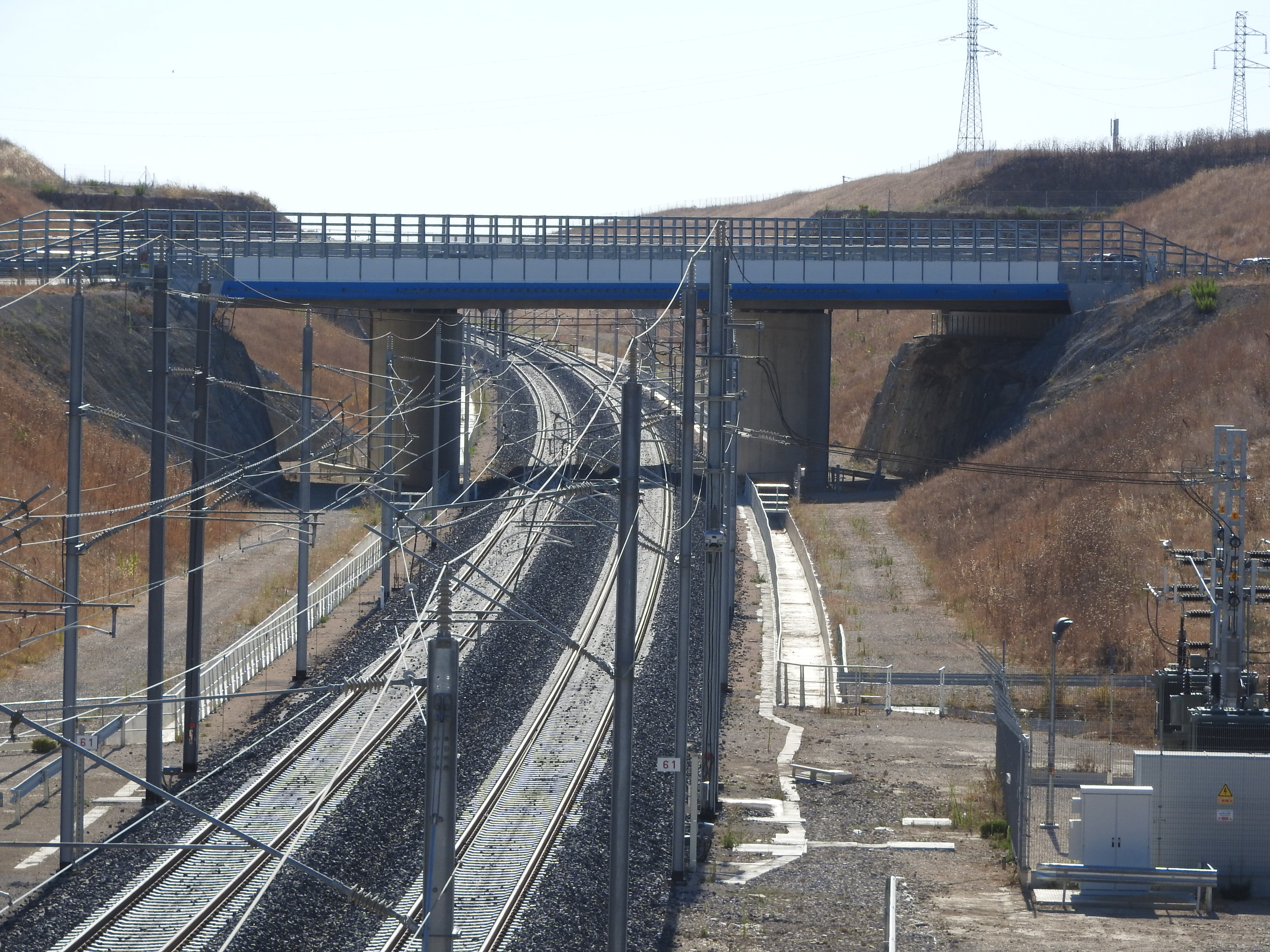 The Contournement Nimes-Montpellier is a major LGV line in Southern France. In August 2017 the tracks had been laid and were being tested at speed. Work was still being done on the ancillary earth work and the realigned local road network.